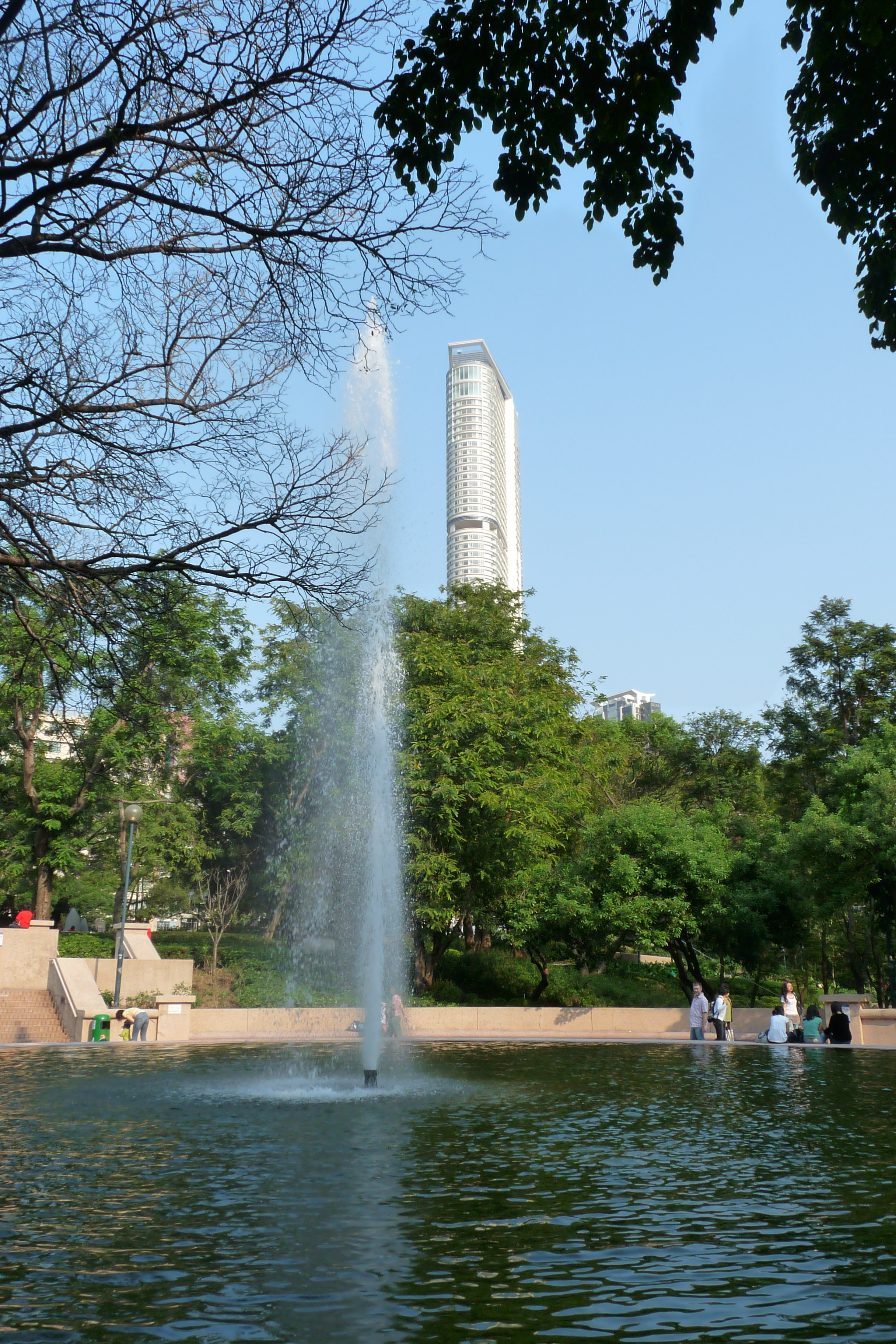 Kowloon Park, Hong Kong. April 2009. Martin Cox.